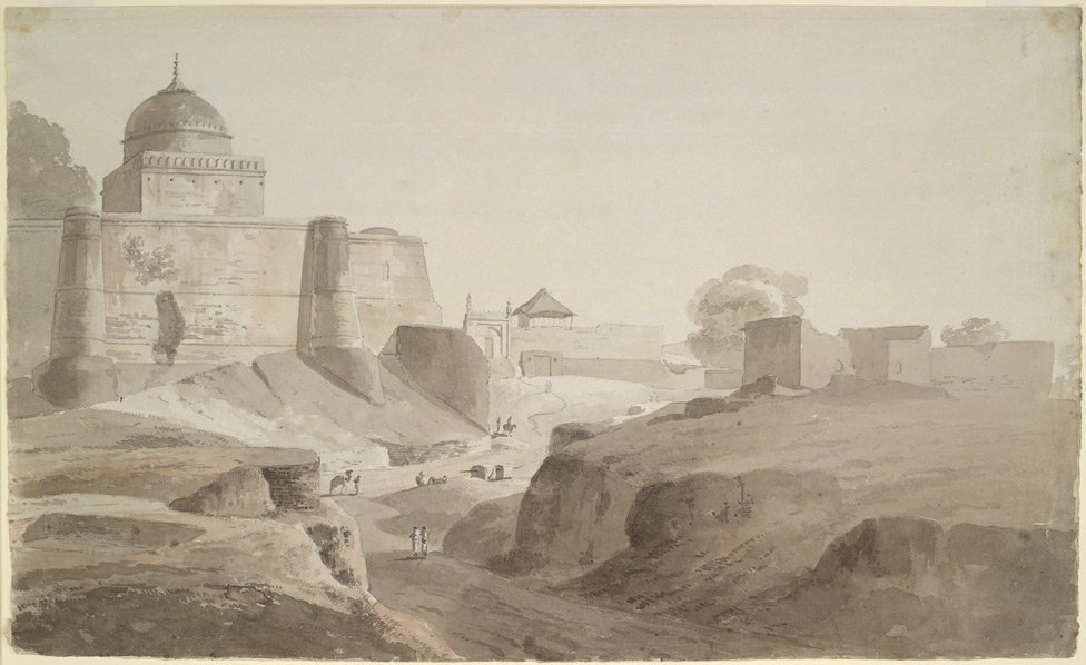 Pencil and wash drawing of a mosque at Sambhal in Uttar Pradesh by Thomas(1749-1840) and William (1769-1837) Daniell, 24 March 1789.